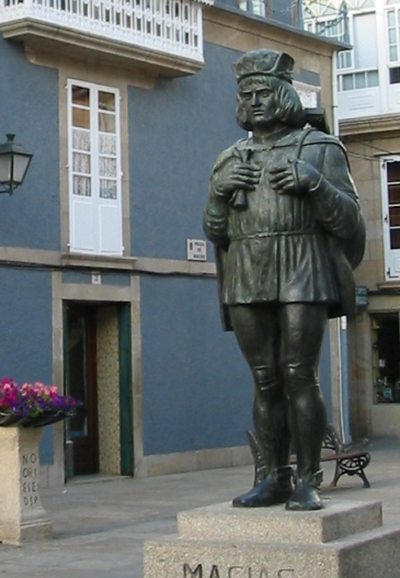 statue to the poet macías in padrón, author myself